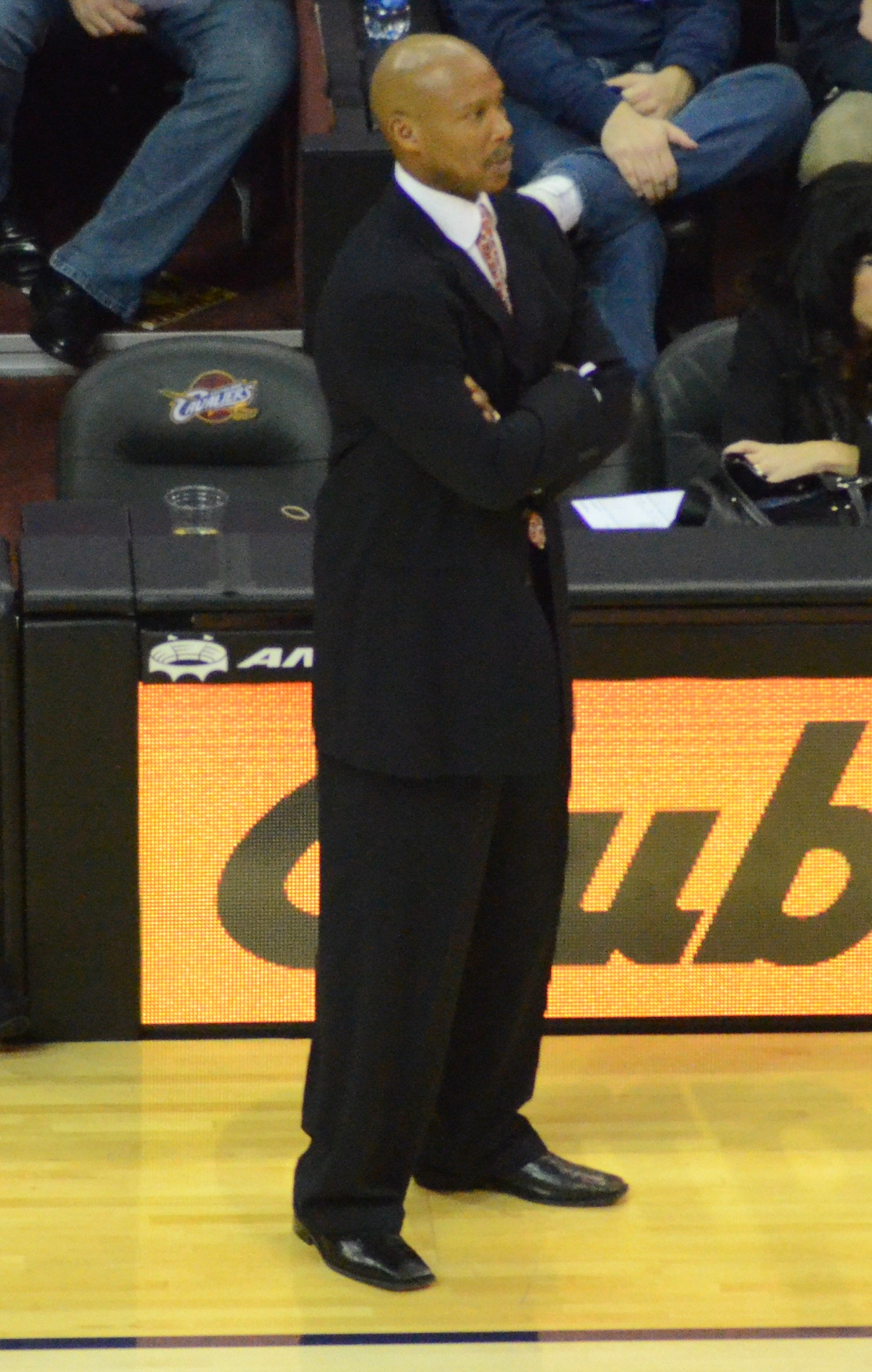 Coach Byron Scott